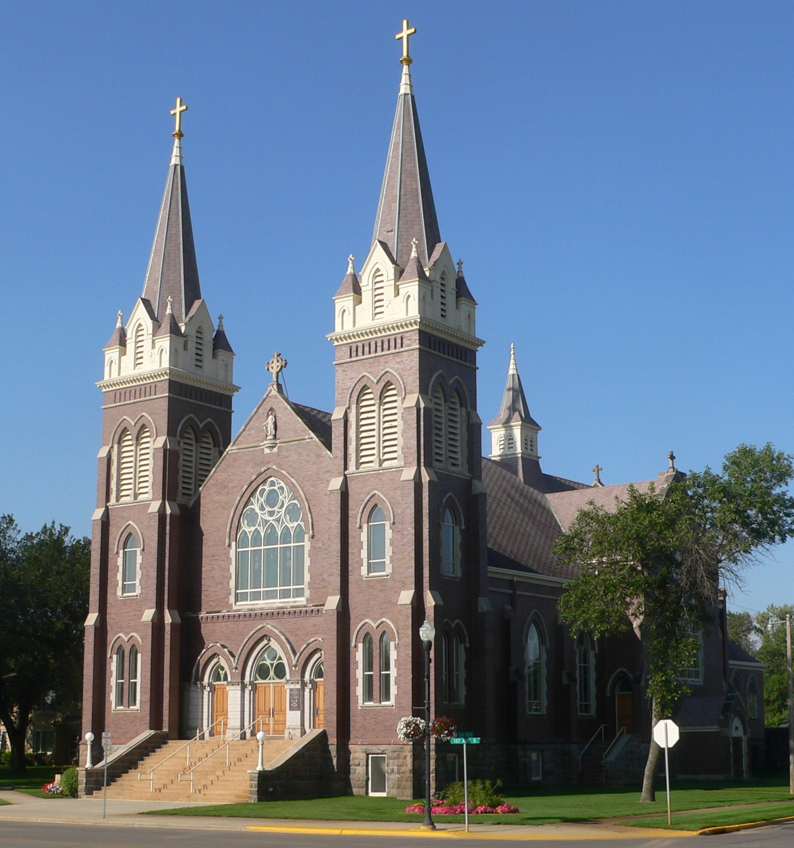 St. James Basilica, at 622 1st Avenue S. in Jamestown, North Dakota; seen from the northeast.